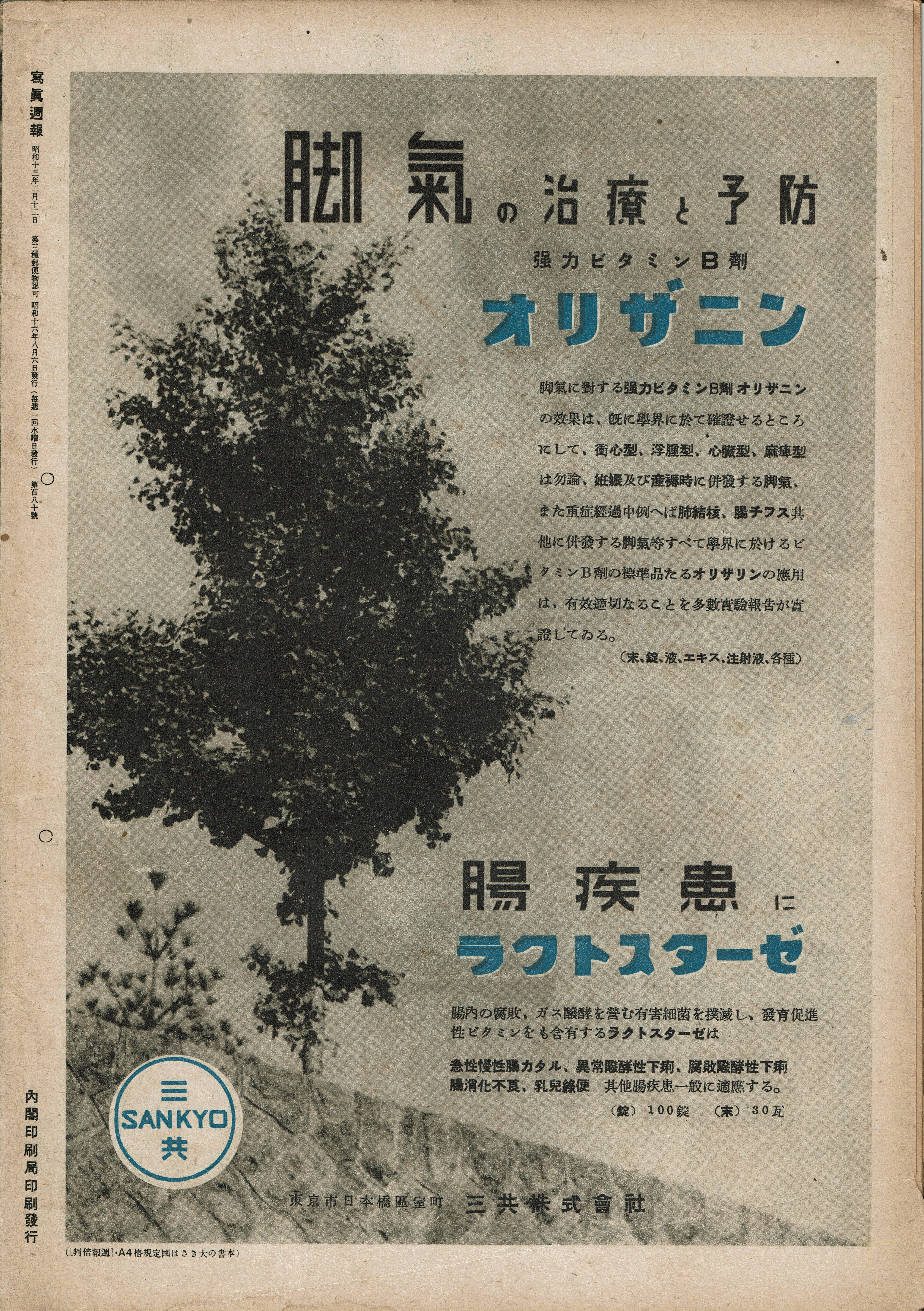 Shashin Shuho means Weekly Pictorial Report. A magazine published by the Intelligence Office, the governmental propaganda office of war-time Japan. This page is an advertisement of Sankyo, a pharmaceutical company.